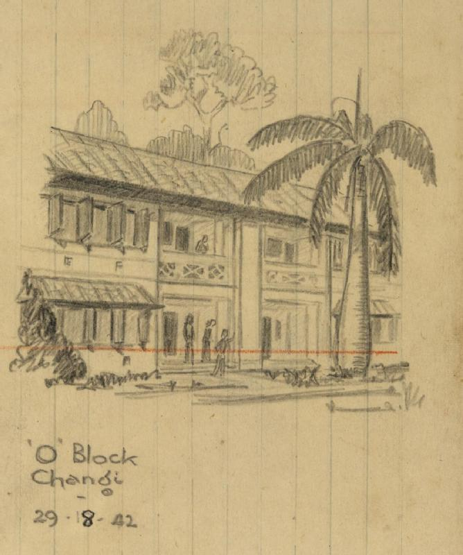 O Block, Changi image: A two-storey building with shutters on the windows and balconies on the upper floor. A large palm tree stands in front of the entrance. A figure leans over one of the balconies, chatting to three others on the ground.